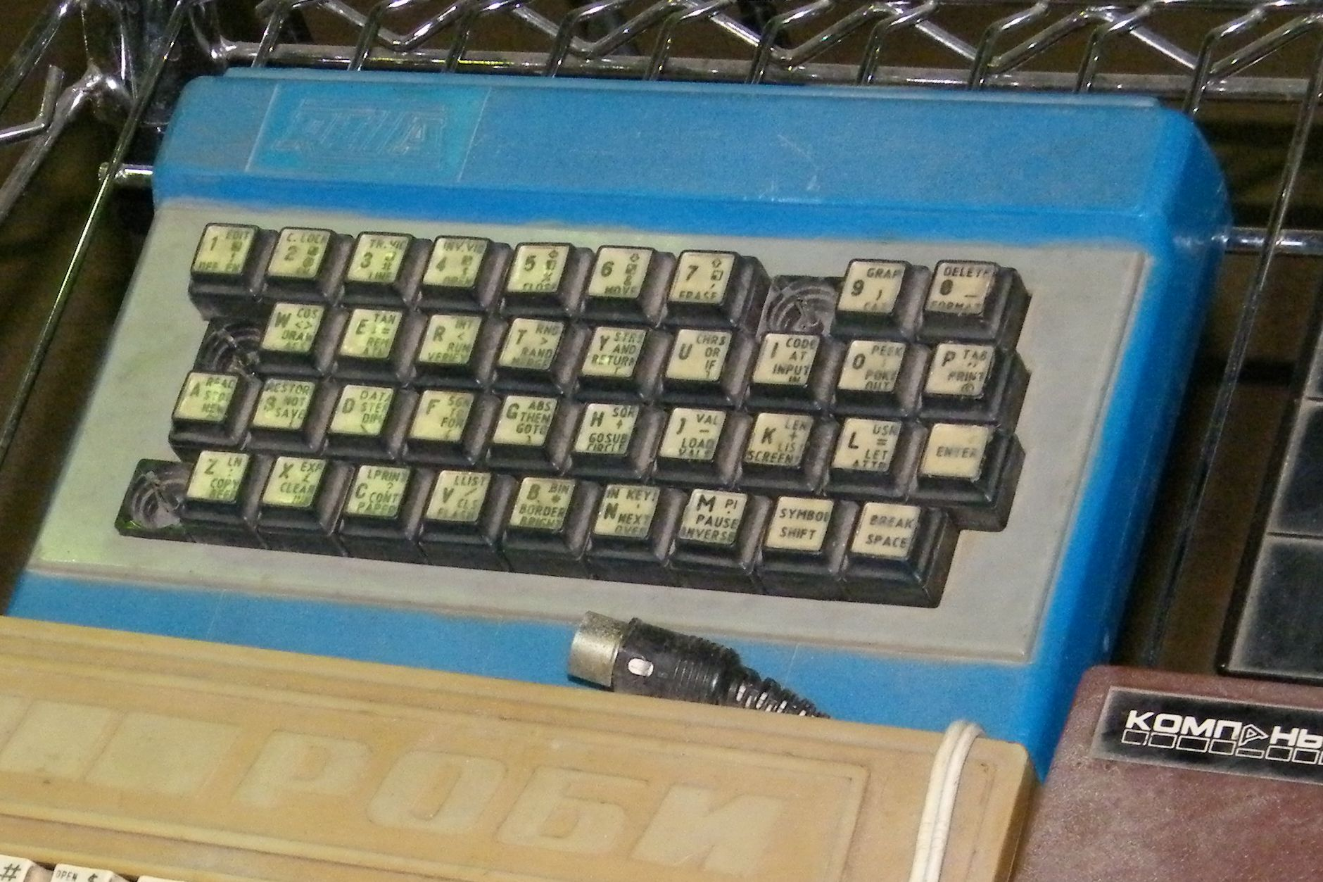 History of computing